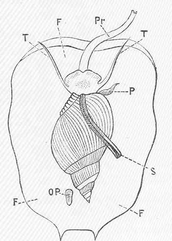 Bullia laevissima Gmel., showing branchial siphon S; F,F,F, foot; OP, operculum; P, penis; Pr. proboscis; T, T, tentacles Subject: Nassariidae, Gastropoda Tag: Mollusks